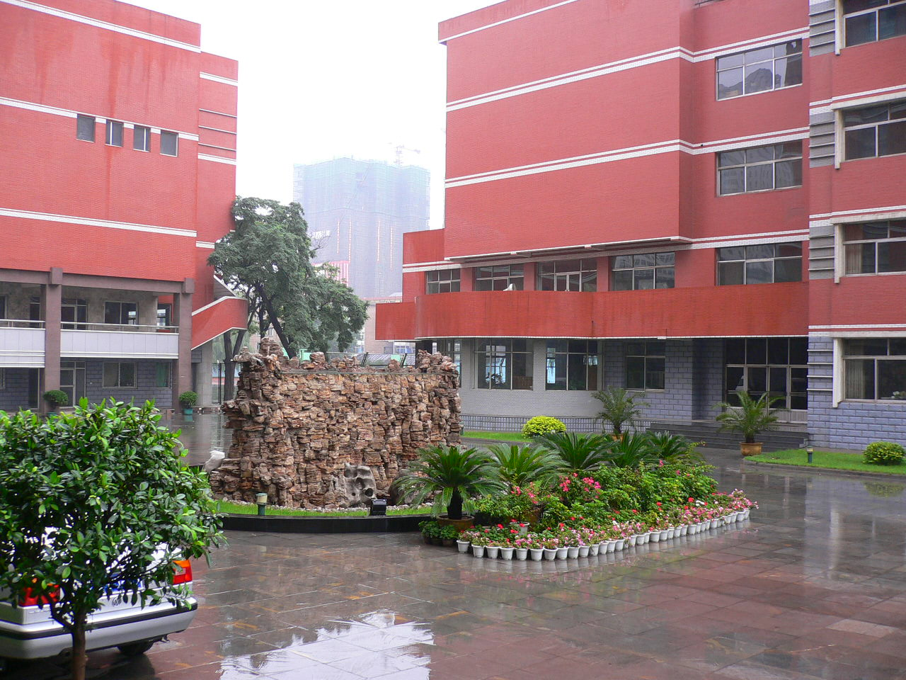 The old campus of Shanxi Experimental Secondary School in Taiyuan, Shanxi, P.R.China.